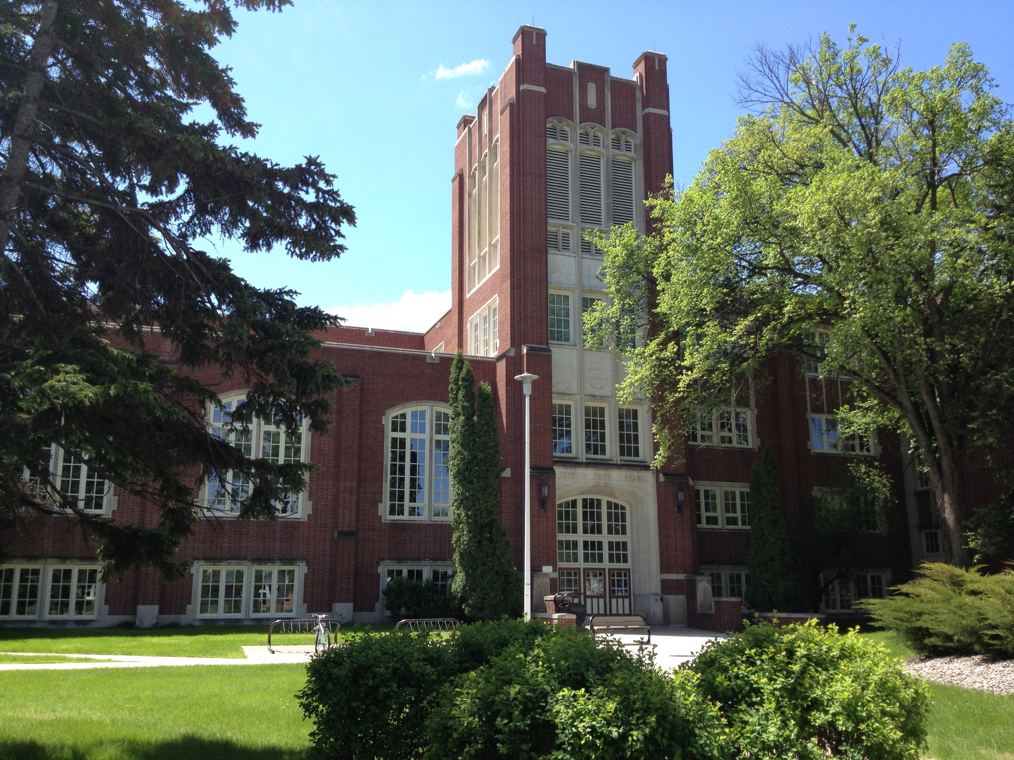 Chester Fritz Library on the University of North Dakota campus in Grand Forks, ND.